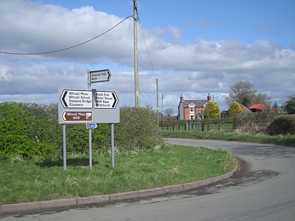 Blind bend on NCR 45